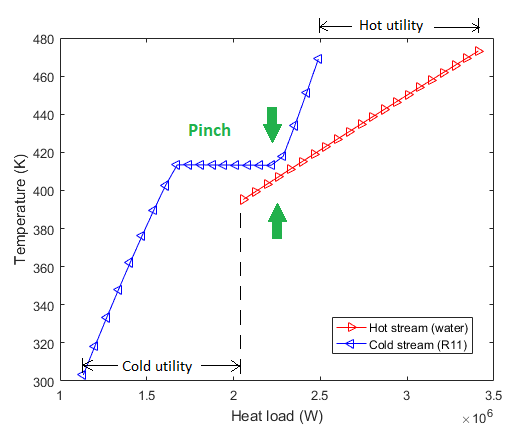 Temperature (K) vs. heat load (W) diagram of hot stream (H2O entering at 20 bar, 473.15 K, and 4 kg/s) and cold stream (R-11 entering at 18 bar, 303.15 K, and 5 kg/s) in a counter-flow heat exchanger. Created using MATLAB and NIST REFPROP. "Pinch" is the point of minimum temperature difference between the hot and cold streams, in a temperature vs. heat load diagram.